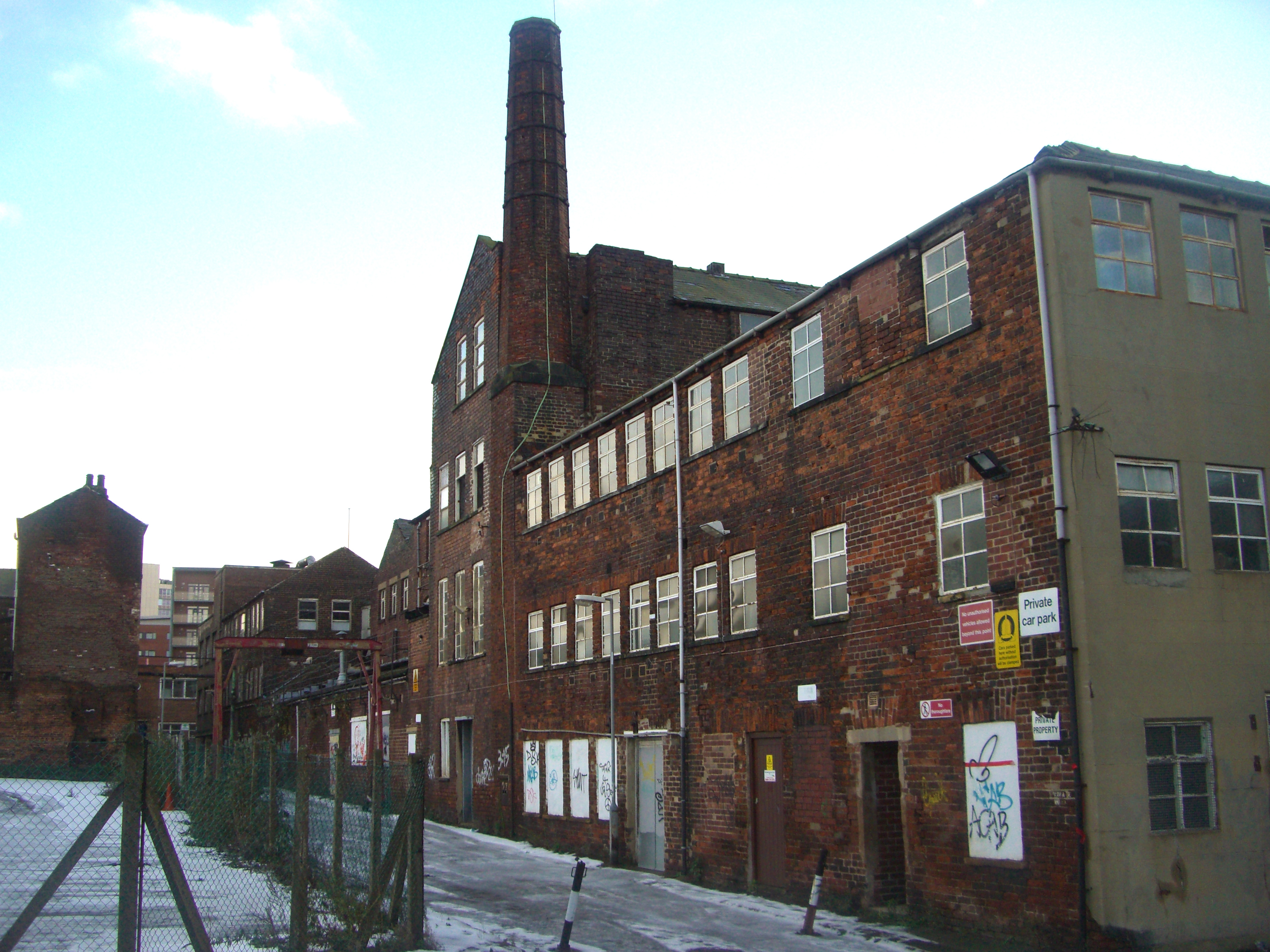 The rear of the Taylor's Eye Witness Works seen from the junction of Headford Street and Egerton Lane in Sheffield, South Yorkshire, England.